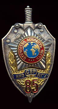 Commemorative badge: 85 years of INO-PGU-SVR